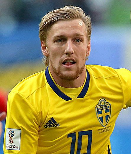 Forsberg at 2018 FIFA World Cup